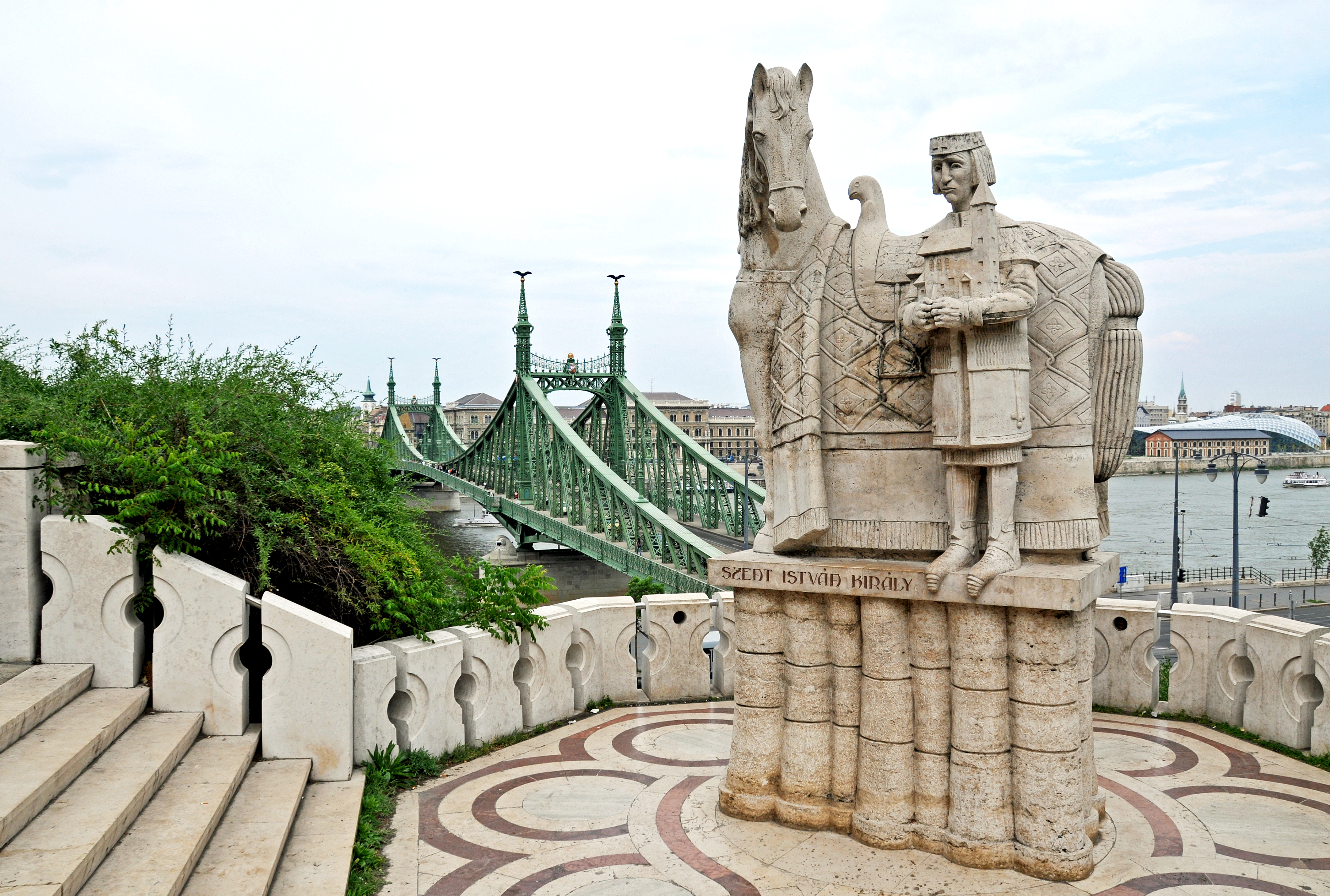 PLEASE, no multi invitations, glitters or self promotion in your comments, THEY WILL BE DELETED. My photos are FREE for anyone to use, just give me credit and it would be nice if you let me know, thanks - NONE OF MY PICTURES ARE HDR. A modern statue of St. Istvan holding a church with Liberty bridge in back, this is next to the entrance of the Cave Church.